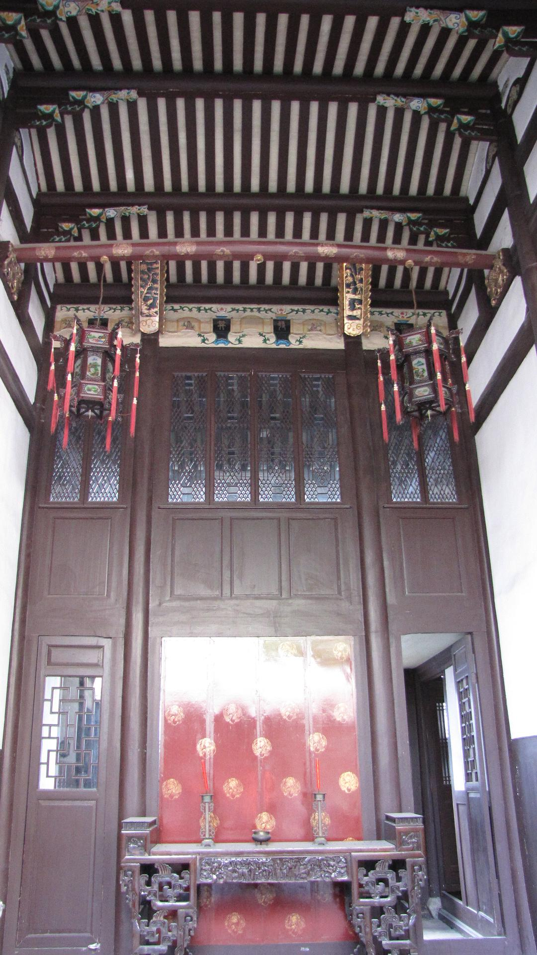 The main hall of Ryukyu House in Fuzhou